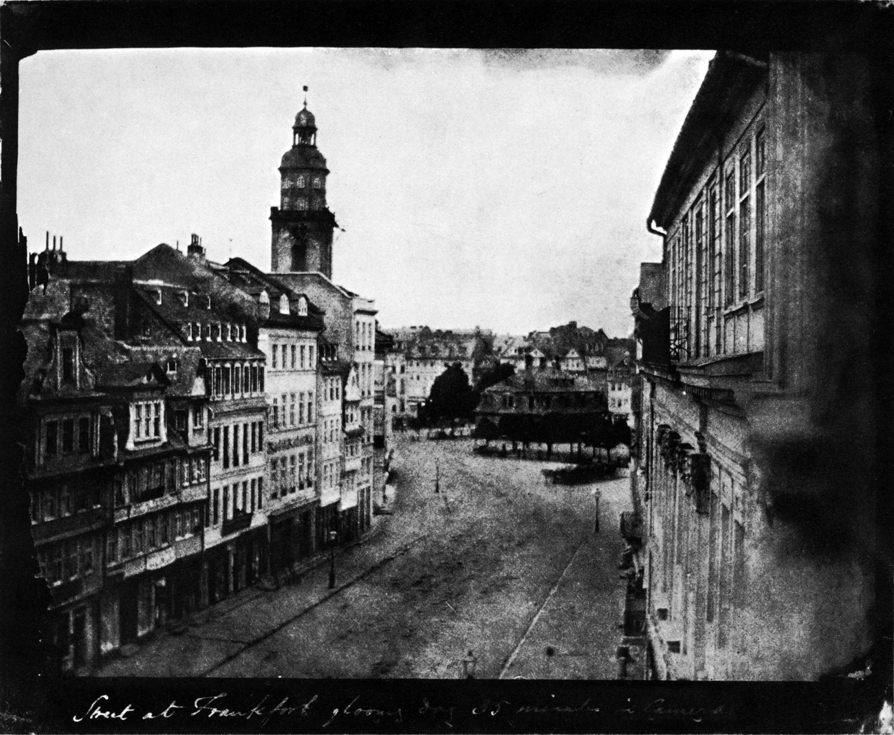 Westbound view from a window of the hotel "Russischer Hof" at the Zeil towards the Hauptwache, calotype.Notice: Talbot's original print is most likely mirror-sided. Hence, for comparison this at 180° horizontally rotated image had been created.